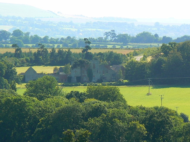 Strattenborough Castle, near Coleshill, Oxfordshire A castle in name only but so named because of the façade. I believe it was built originally as a folly. Visible in this foreshortened image at the upper left is Liddington Castle (a real Iron Age one) at SU207796 nearly 15 kilometres away.